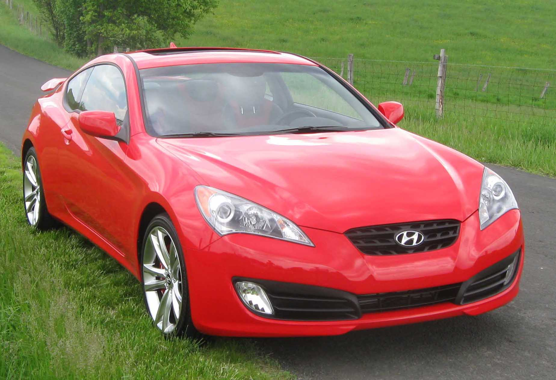 2010 Hyundai Genesis Coupe photographed in Marshall, Virginia, USA.